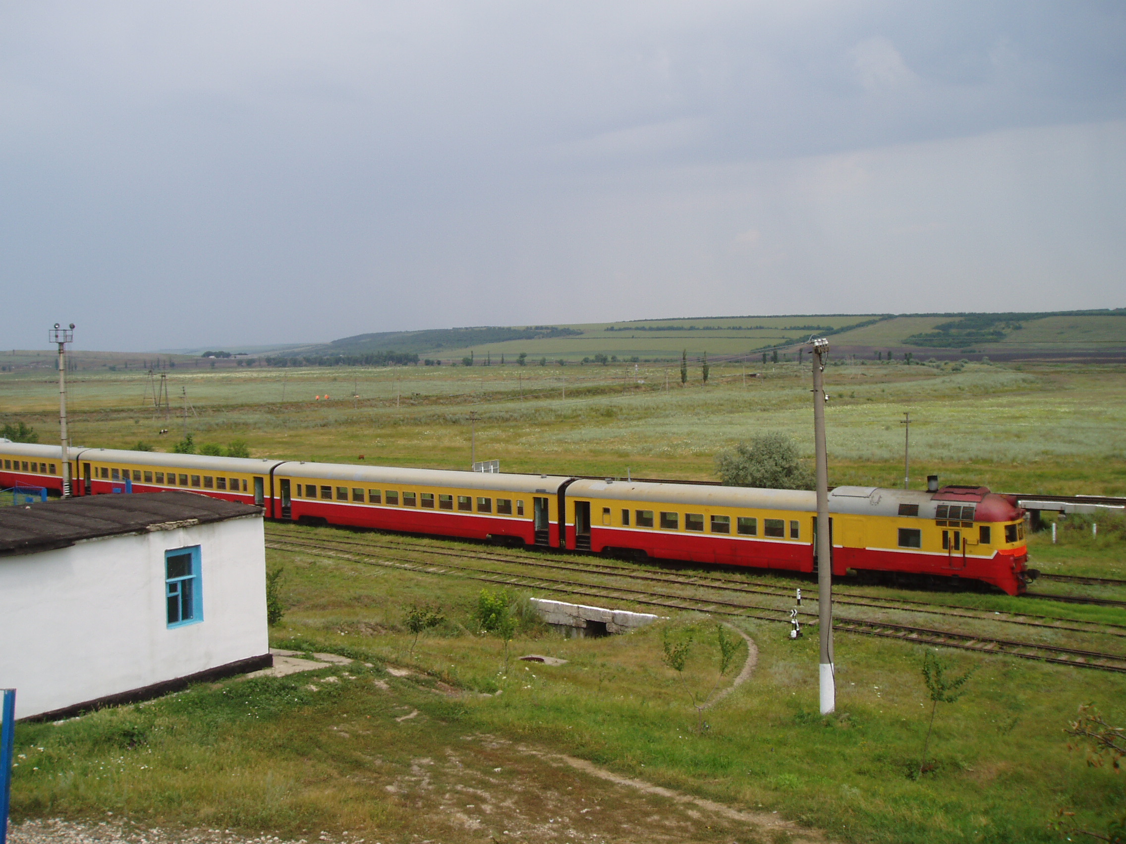 We found this on our way from Chisinau to Comrat, and it was accessible from the road. (Ganz-MÁVAG D1 diesel multiple unit)